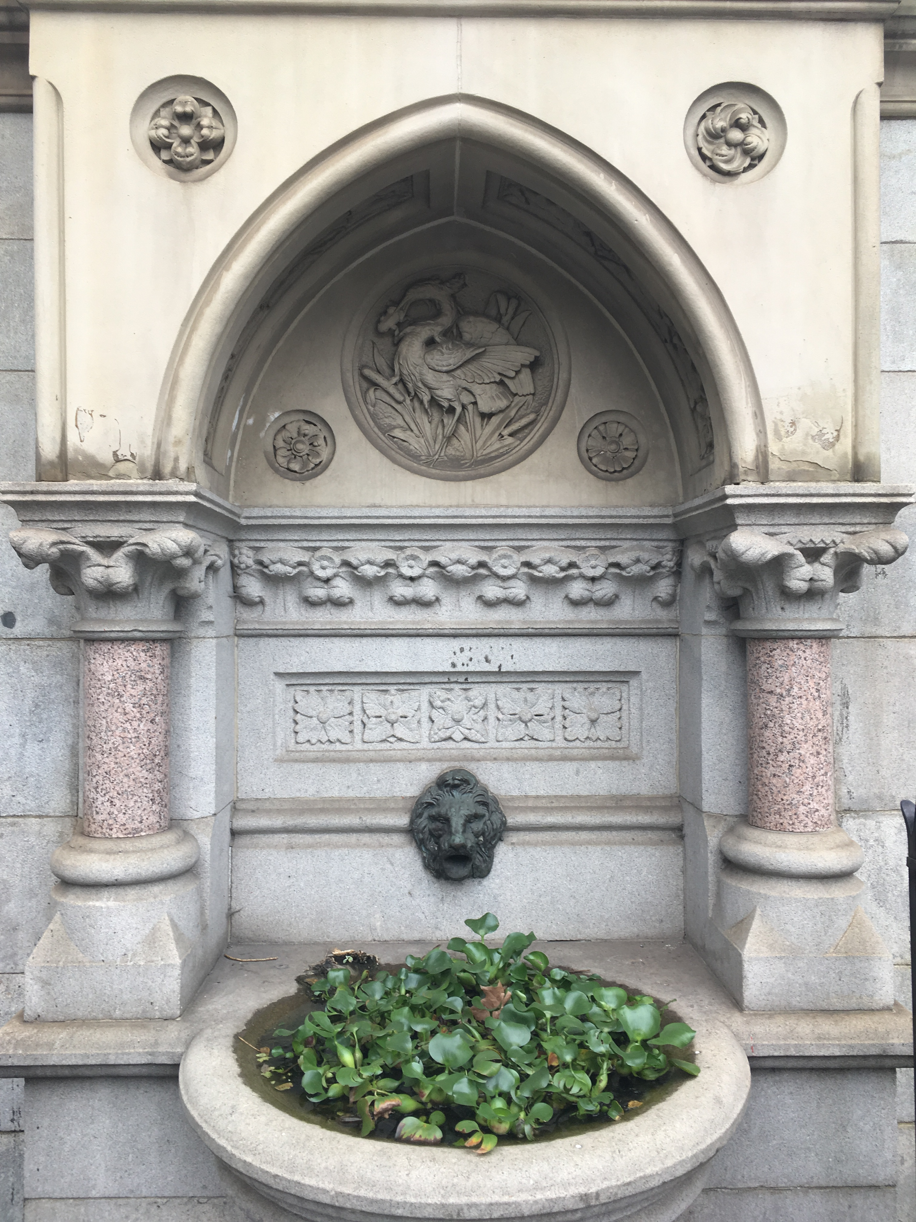 Fountain at the corner of Jefferson Market Library, 6th Ave & 10th St.Site: Jefferson Market